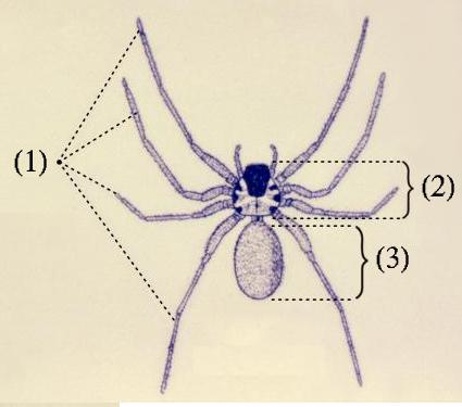 "This illustration shows the basic characteristics of the Class Arachnida whose members include spiders, ticks and mites." (from PHIL description)